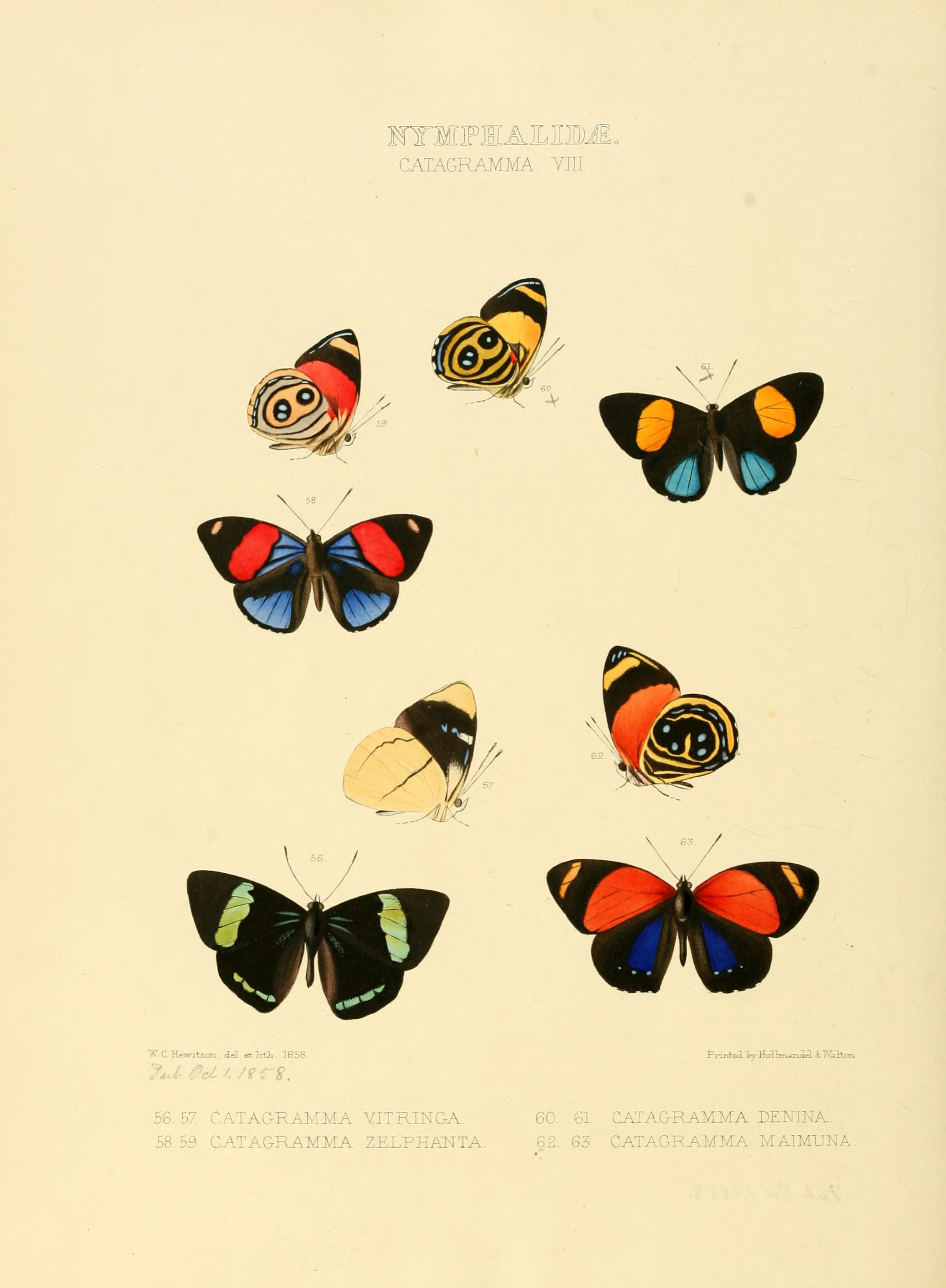 Plate: Catagramma VIII Catagramma vitringa. Figs. 56, 57. Accepted as Perisama vitringa (Hewitson, 1858). Catagramma zelphanta. Figs. 58, 59. Accepted as Callicore hystaspes (Fabricius, 1781). Catagramma denina. Figs. 60, 61. Accepted as Callicore tolima (Hewitson, 1851). Catagramma maimuna. Figs. 62, 63. Accepted as Callicore texa (Hewitson, 1855).